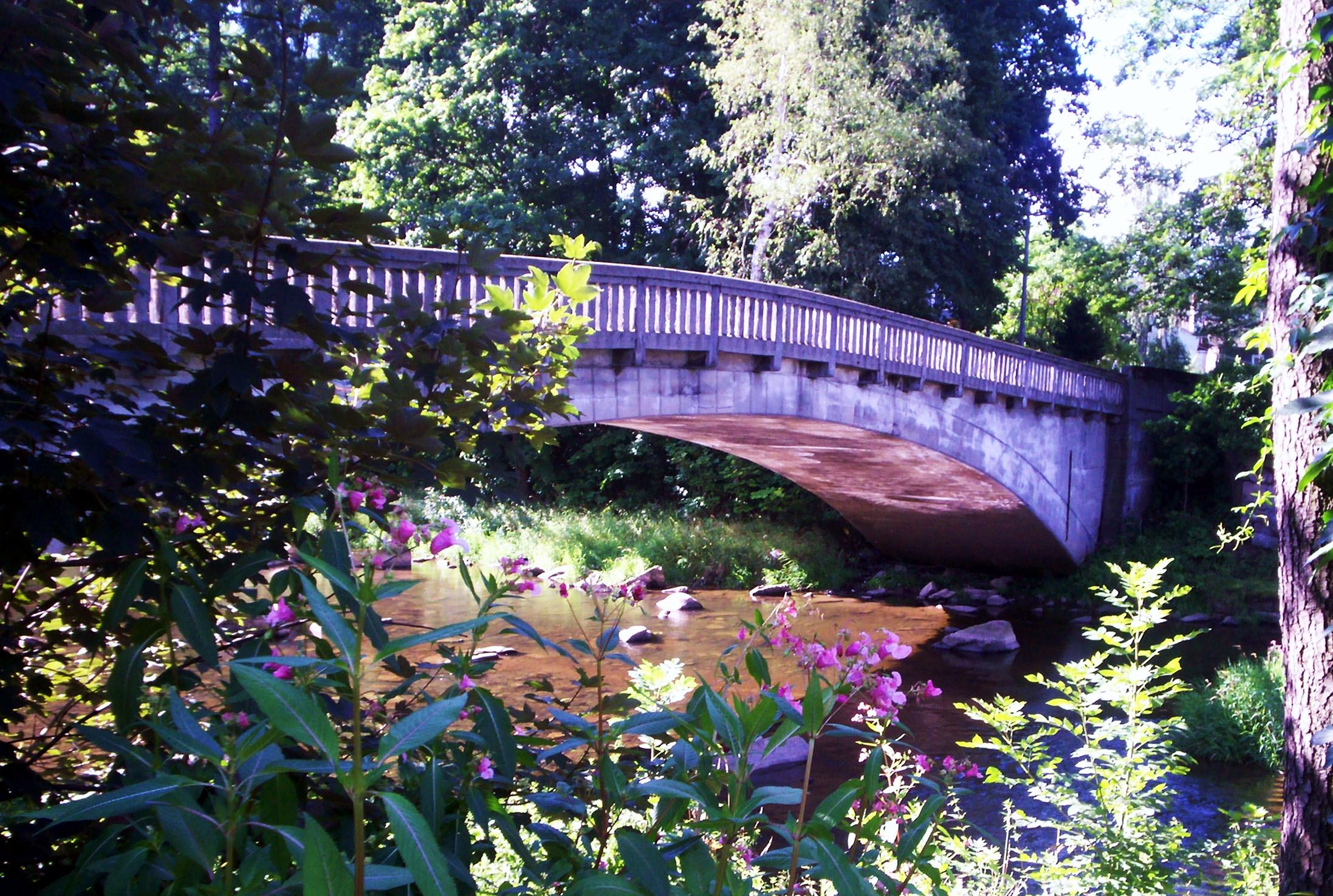 A stone bridge over Bobr River